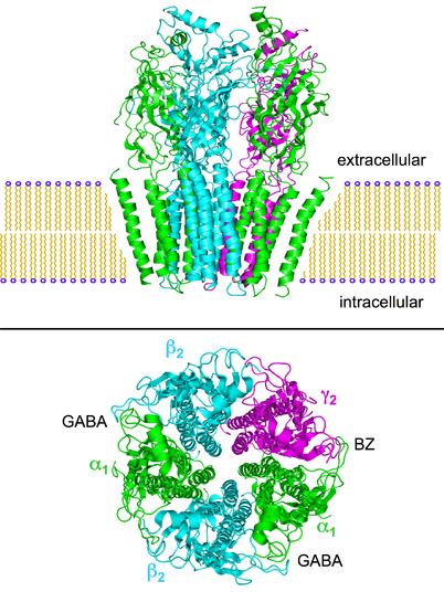 Nicotinic receptor